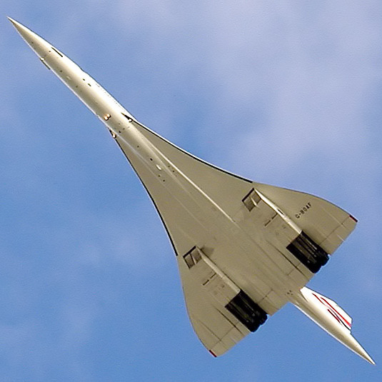 The last ever flight of any Concorde, 26th November 2003. The aircraft (G-BOAF) is overflying Filton airfield at two thousand feet to take a wide circle over the Bristol area before the final landing on the Filton (Bristol) runway from which she first flew in 1979, and from which the first British Concorde flew in 1969.